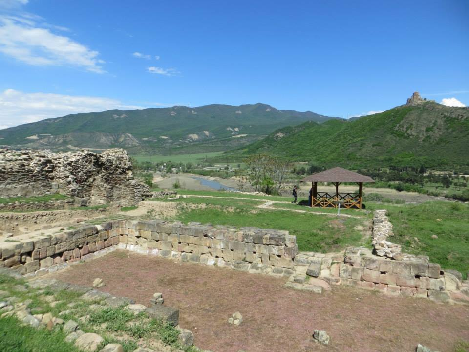 In 2010, the Georgian National Agency for Cultural Heritage Preservation launched a major project to preserve the uncovered ruins of the ancient citadel of Armaztsikhe, survey the surrounding area for other structures, and make the site accessible to visitors.